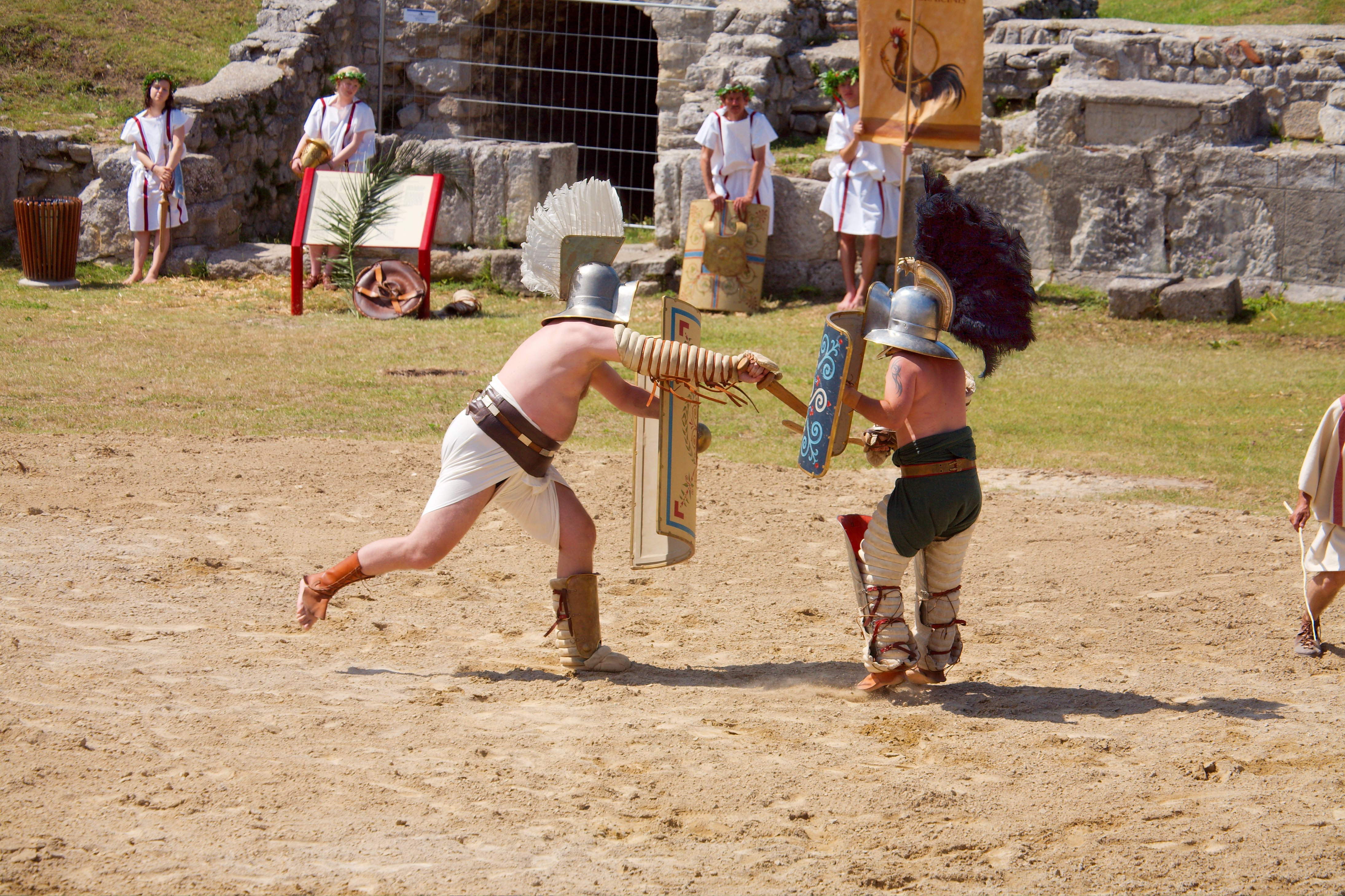 show fight in Carnuntum: thraex vs. murmillo gladiators